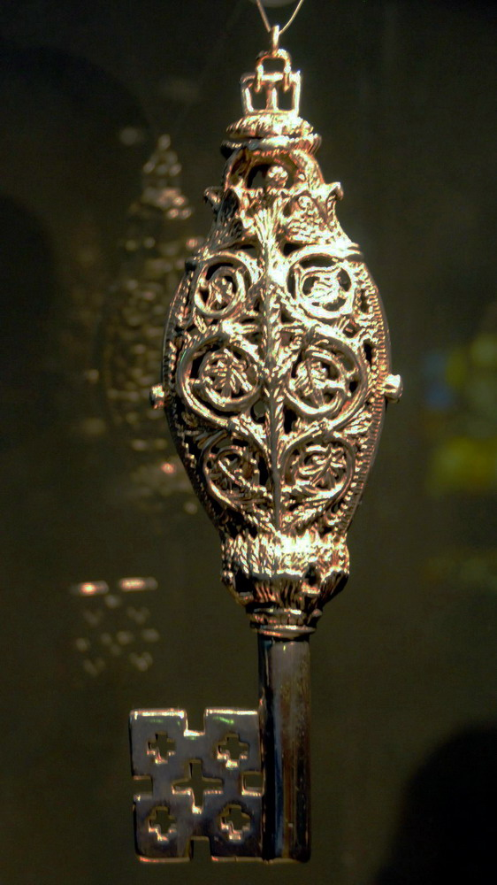 Basilica of Saint Servatius, Maastricht, the Netherlands. Key of Saint Servatius in the treasury.